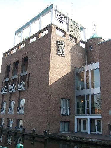 Cityhall Aalsmeer, Netherlands, North Holland